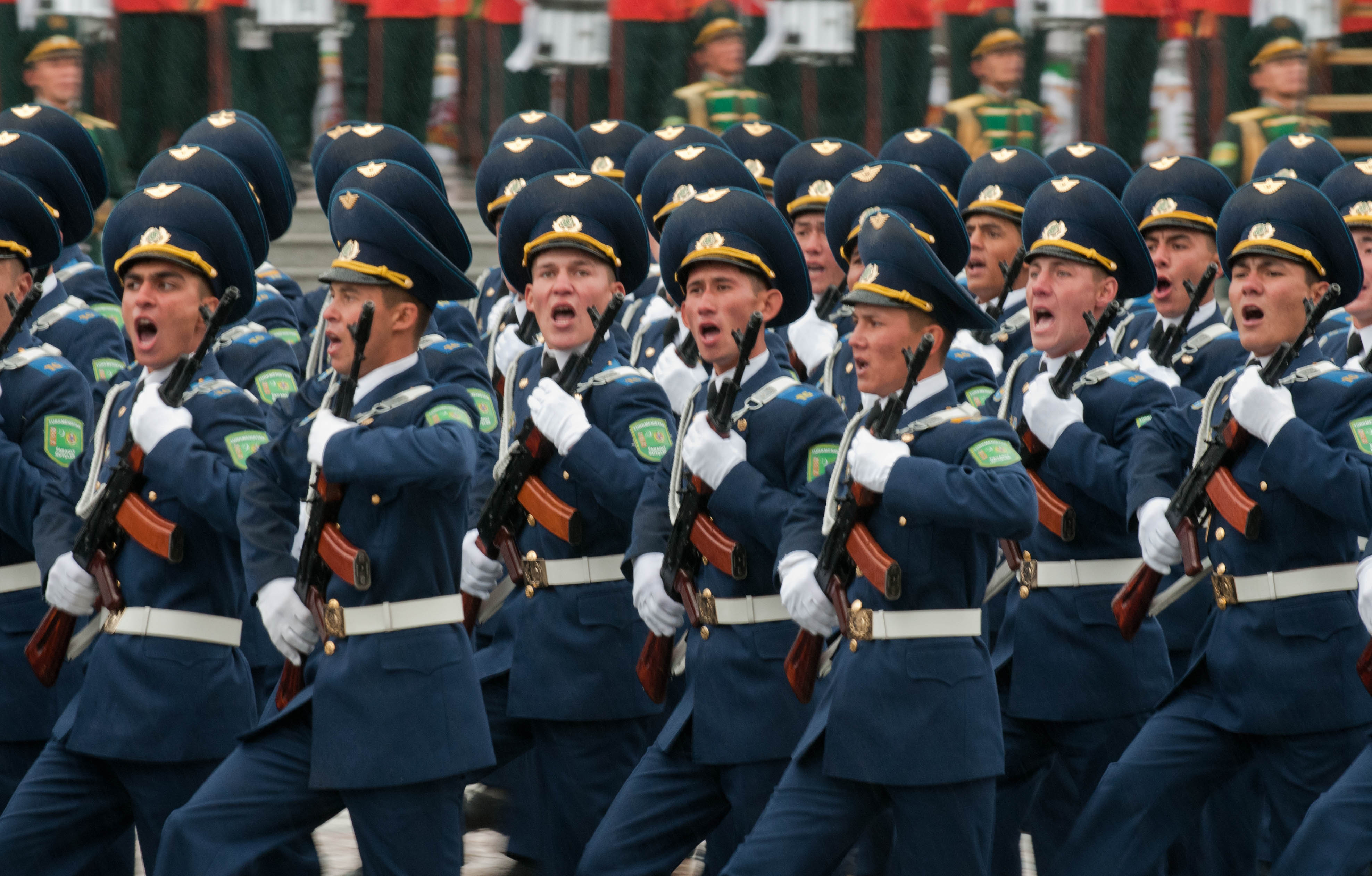 Celebrating the 20th year of independence in Turkmenistan